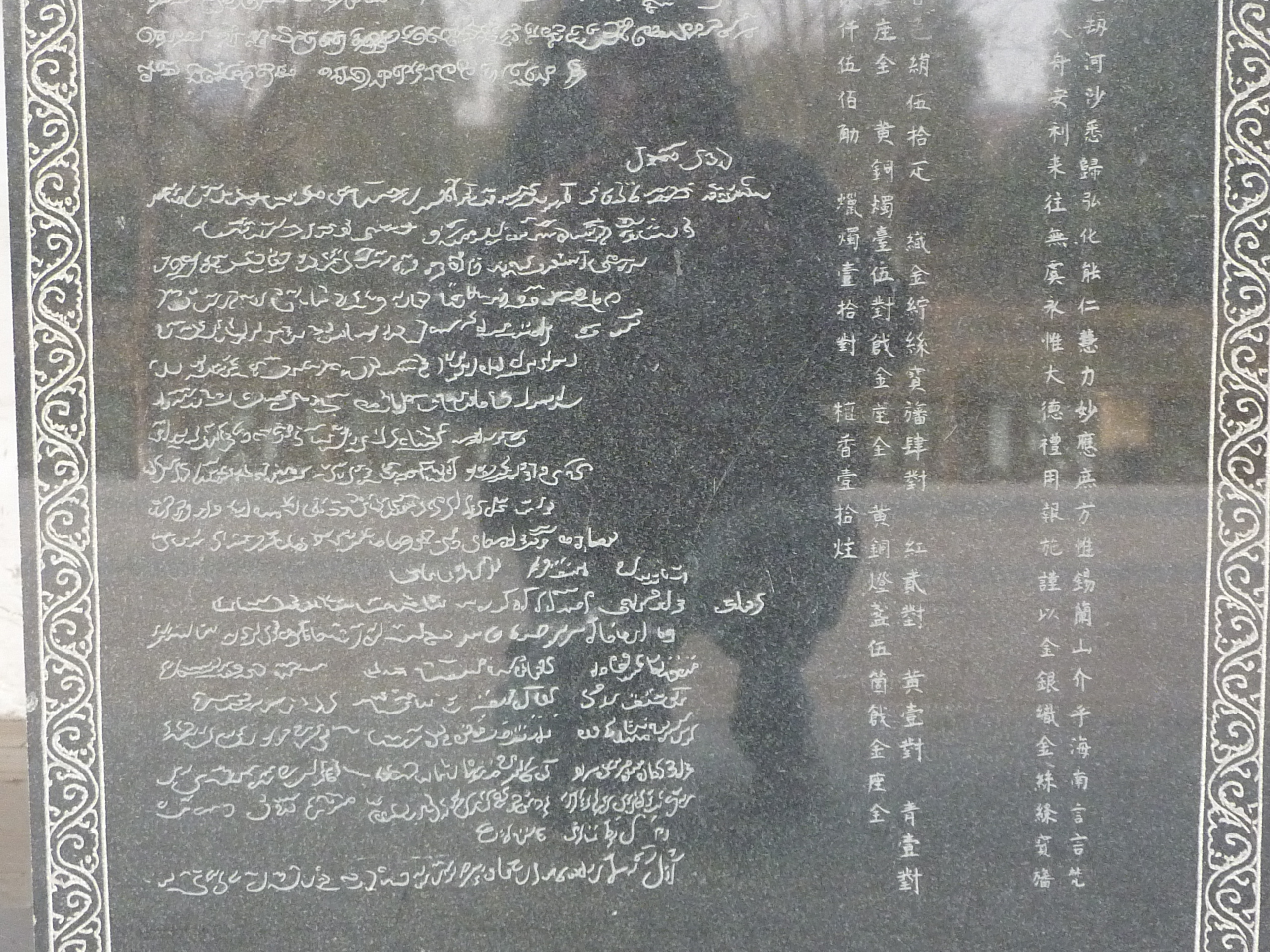 Zheng He's stele from Galle, Sri Lanka. This is a modern replica, seen along with other steles in the Stele Pavilion of the Treasure Boat Shipyard in Nanjing.